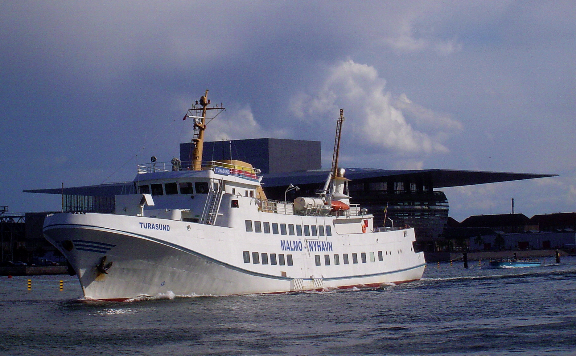 Turasund in Copenhagen harbour. 8 August, 2005